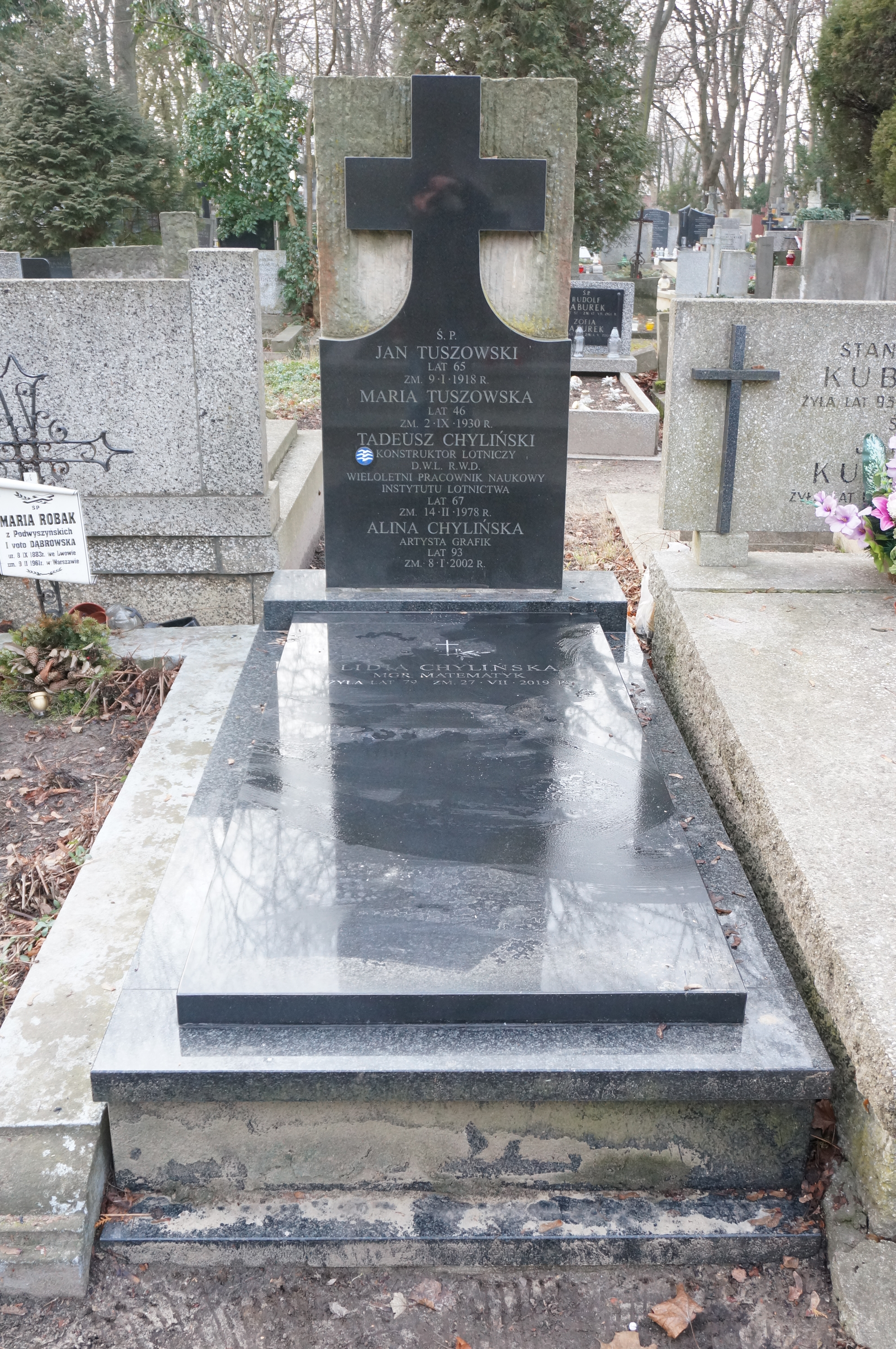 The grave of Tadeusz Chyliński at the Powązki Cemetery (section 325, row 1, grave 11)